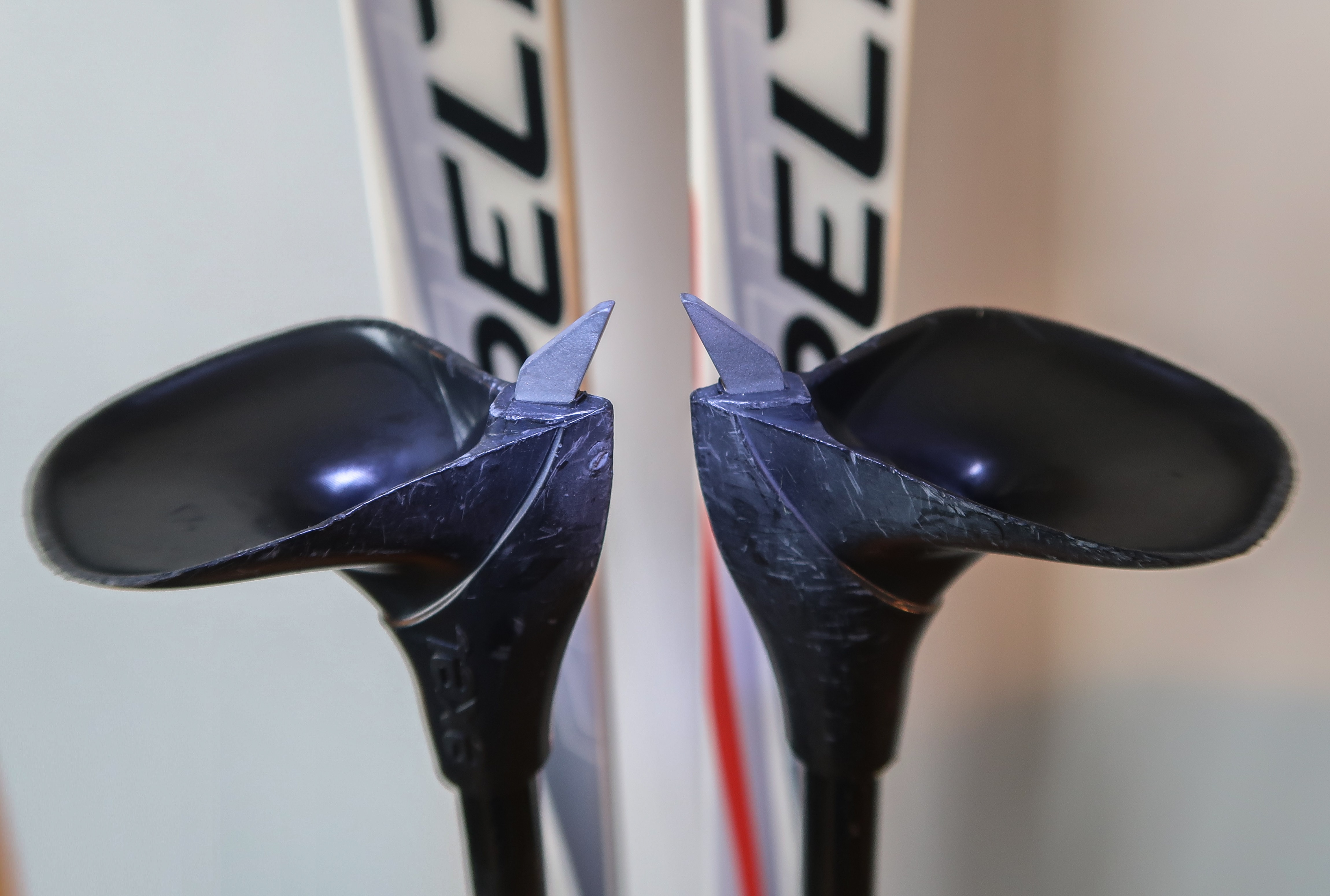 Lower ends of cross-country skier’s ski sticks (Exel, Finland).